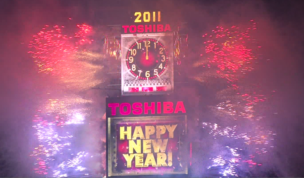 The Toshiba logo on top of One Times Square at midnight on New Year's Eve 2011.